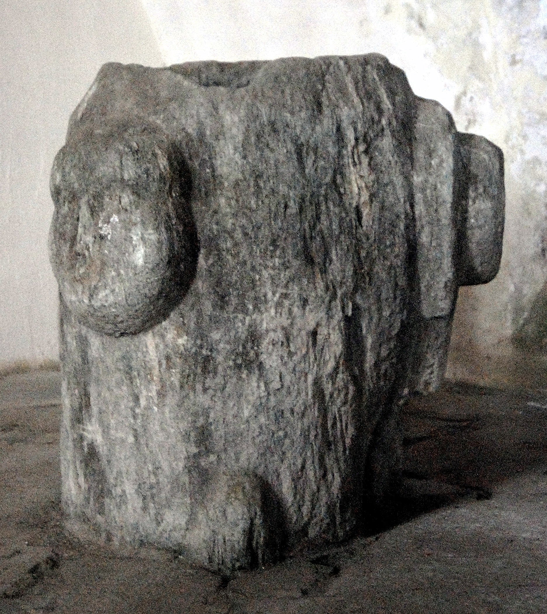 Pagan sacrifice stone in the church of Saint Helen on top of the Mount Magdalena, Carinthia, Austria